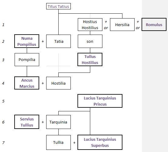 Family relations between Roman kings